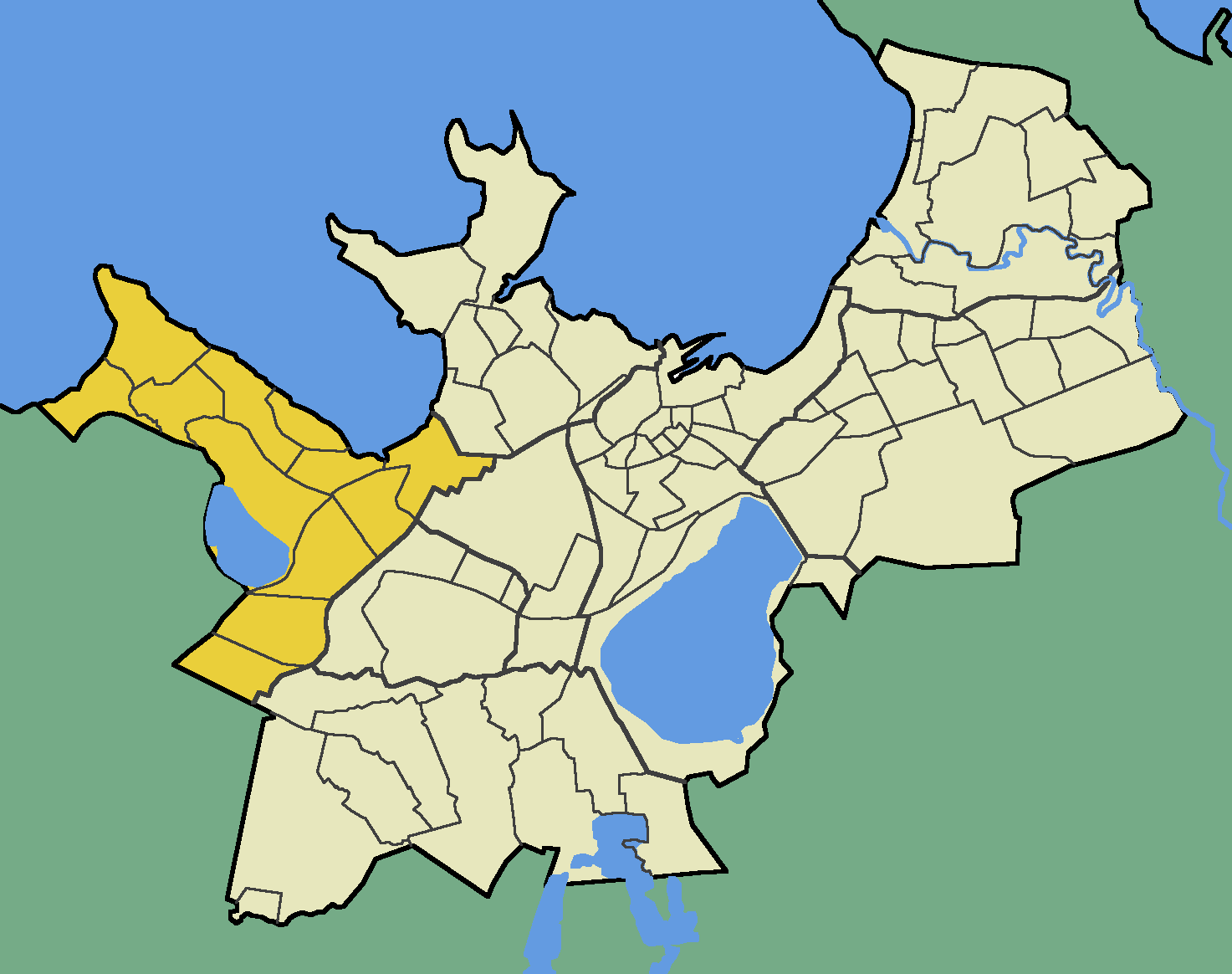 Map of Tallinn (Estonia) with borders of the quarters, Haabersti district emphasised